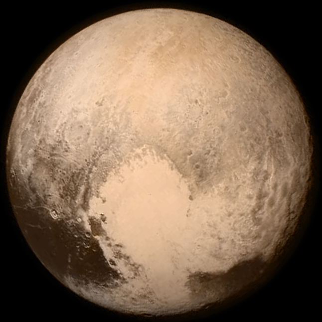 PLUTO - NEW HORIZONS - JULY 13, 2015 IMAGE CAPTION: This image of the dwarf planet was captured from New Horizons on July 13, 2015, about 16 hours before the moment of closest approach. The spacecraft was 766,000 kilometers from the surface. PLUTO - NEW HORIZONS - JULY 13, 2015 - FULL IMAGE CAPTION: Pluto nearly fills the frame in this image from the Long Range Reconnaissance Imager (LORRI) aboard NASA’s New Horizons spacecraft, taken on July 13, 2015 when the spacecraft was 476,000 miles (768,000 kilometers) from the surface. This is the last and most detailed image sent to Earth before the spacecraft’s closest approach to Pluto on July 14. The color image has been combined with lower-resolution color information from the Ralph instrument that was acquired earlier on July 13. This view is dominated by the large, bright feature informally named the “heart,” which measures approximately 1,000 miles (1,600 kilometers) across. The heart borders darker equatorial terrains, and the mottled terrain to its east (right) are complex. However, even at this resolution, much of the heart’s interior appears remarkably featureless—possibly a sign of ongoing geologic processes.